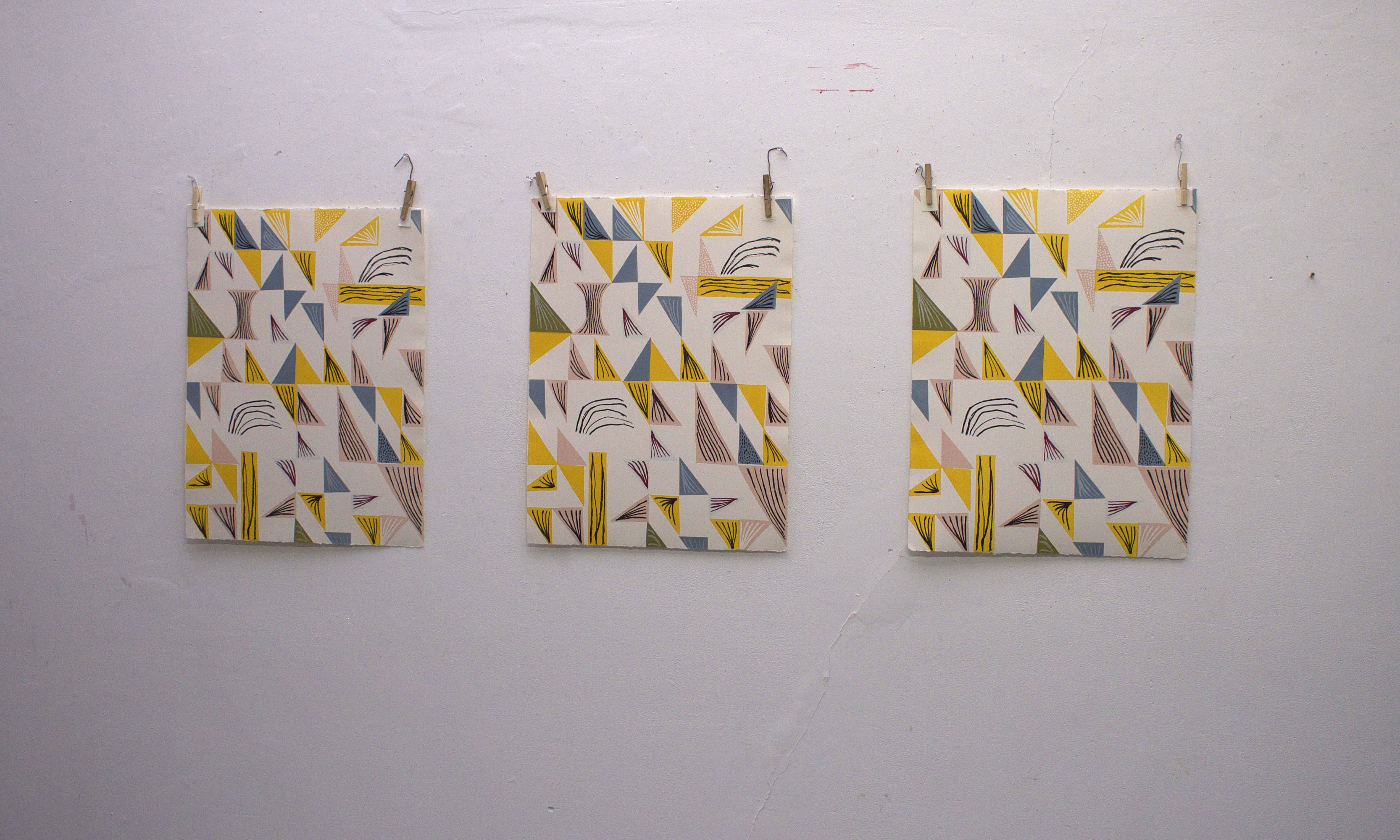 Anthony White, Australian painter, recently based in Paris, is with us to produce a lithograph in seven color passages. With help from the Creative Career Fund by The Copyright Agency, (Australia) has been funded to collaborate with Woolworth Publications to experiment with lithographic processes.